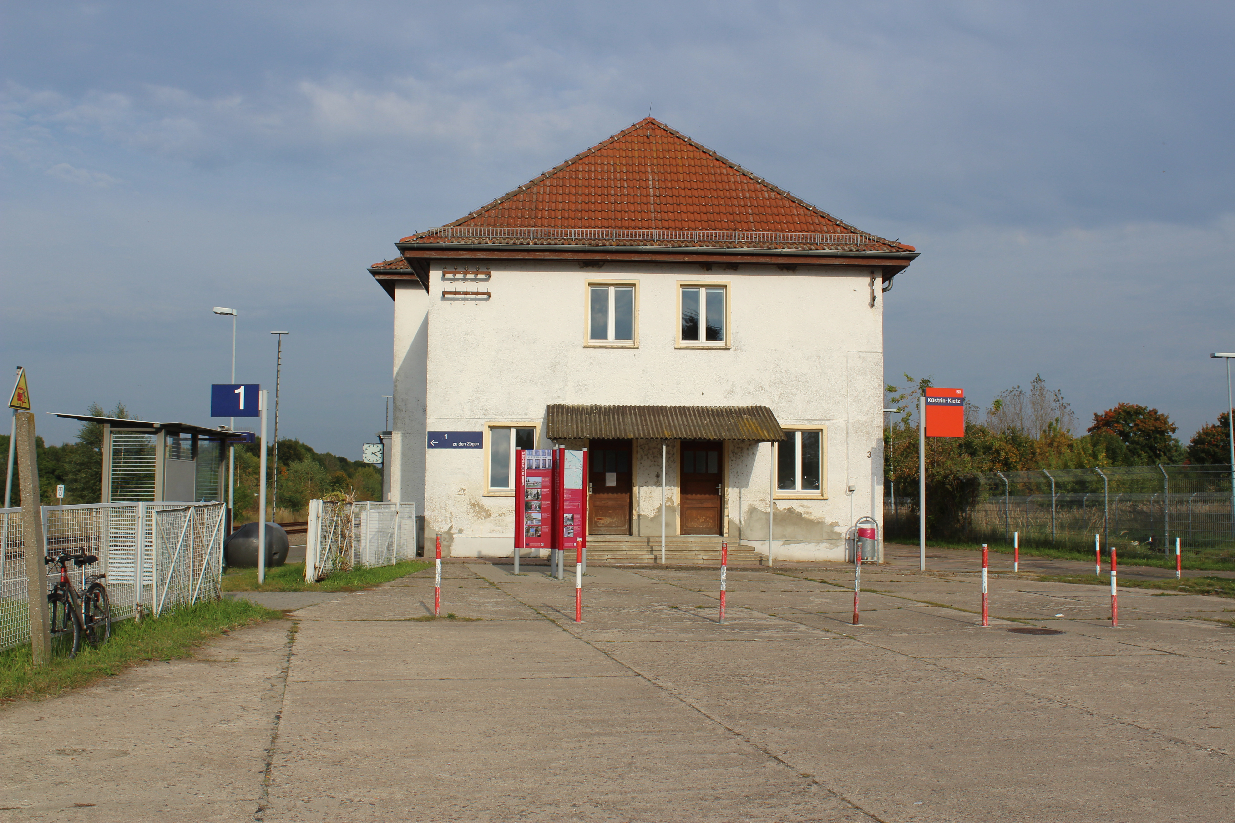 train station Küstrin-Kietz, station building